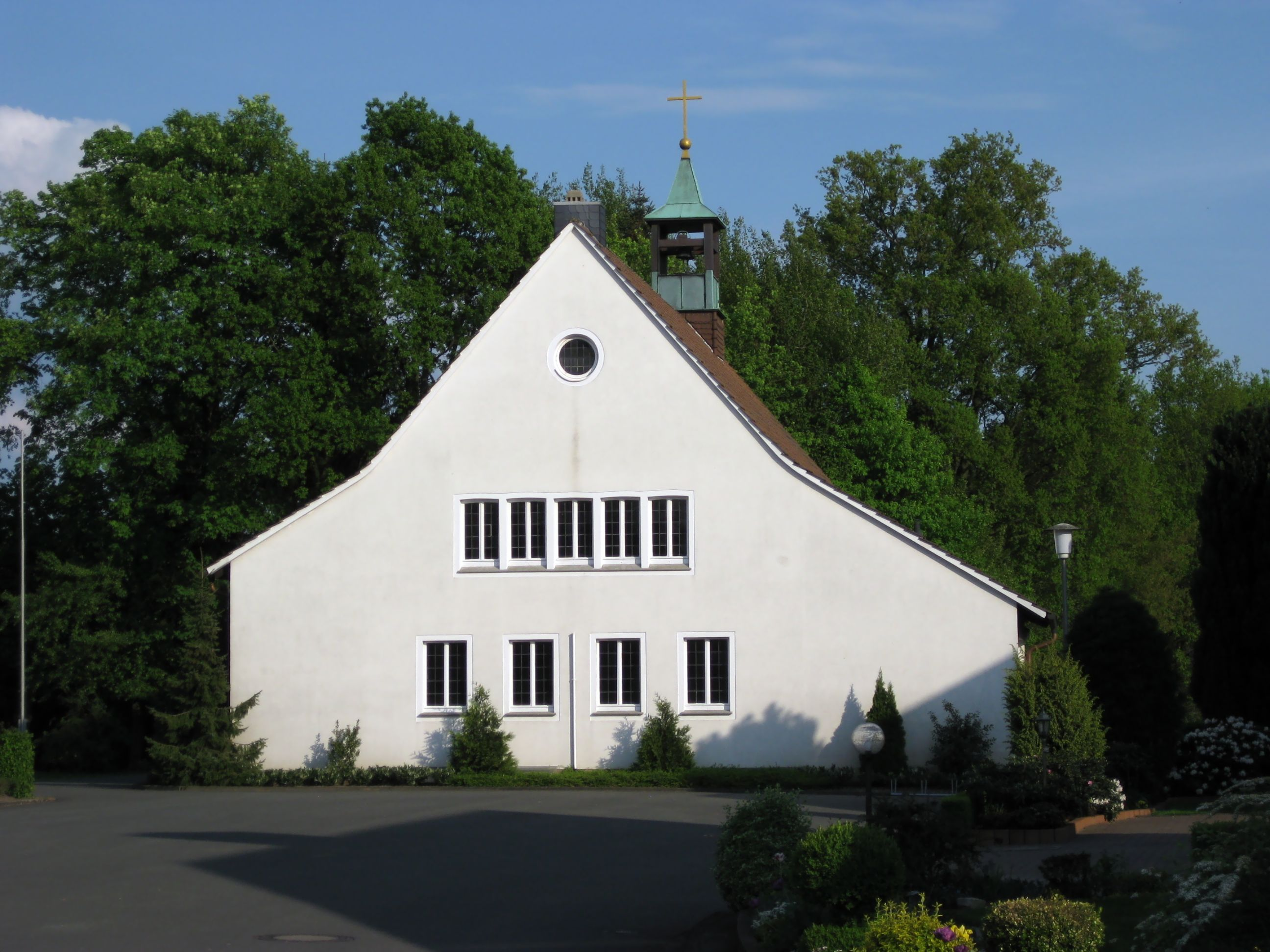 lutheran parish church Paul-Gerhard-Kapelle in Versmold-Hesselteich